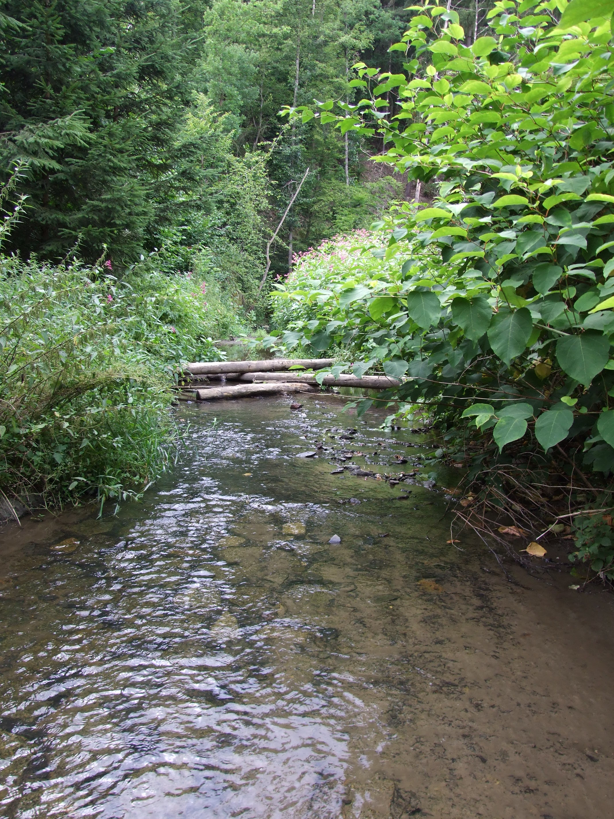 Zahořany creek, Central Bohemian region, CZhelp